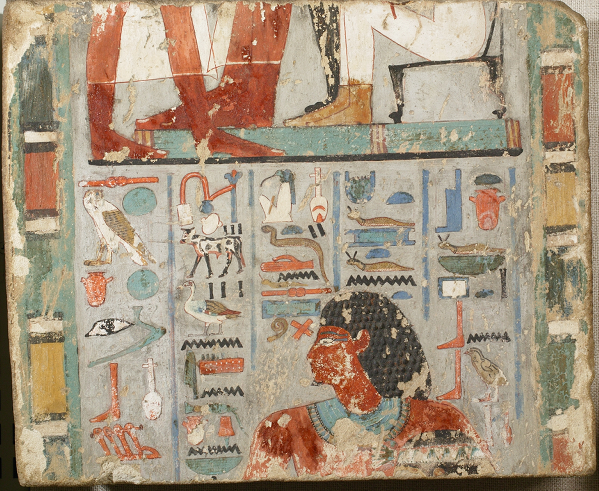 Door jamb, painting, Djehutynefer